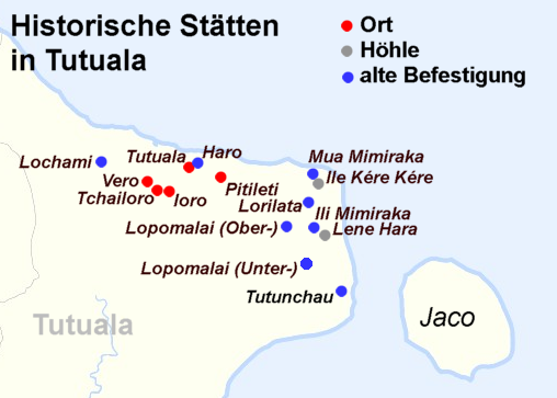 Historical sites in Tutuala, Timor-Leste